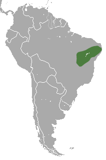 Brazilian Three-banded Armadillo (Tolypeutes tricinctus) range